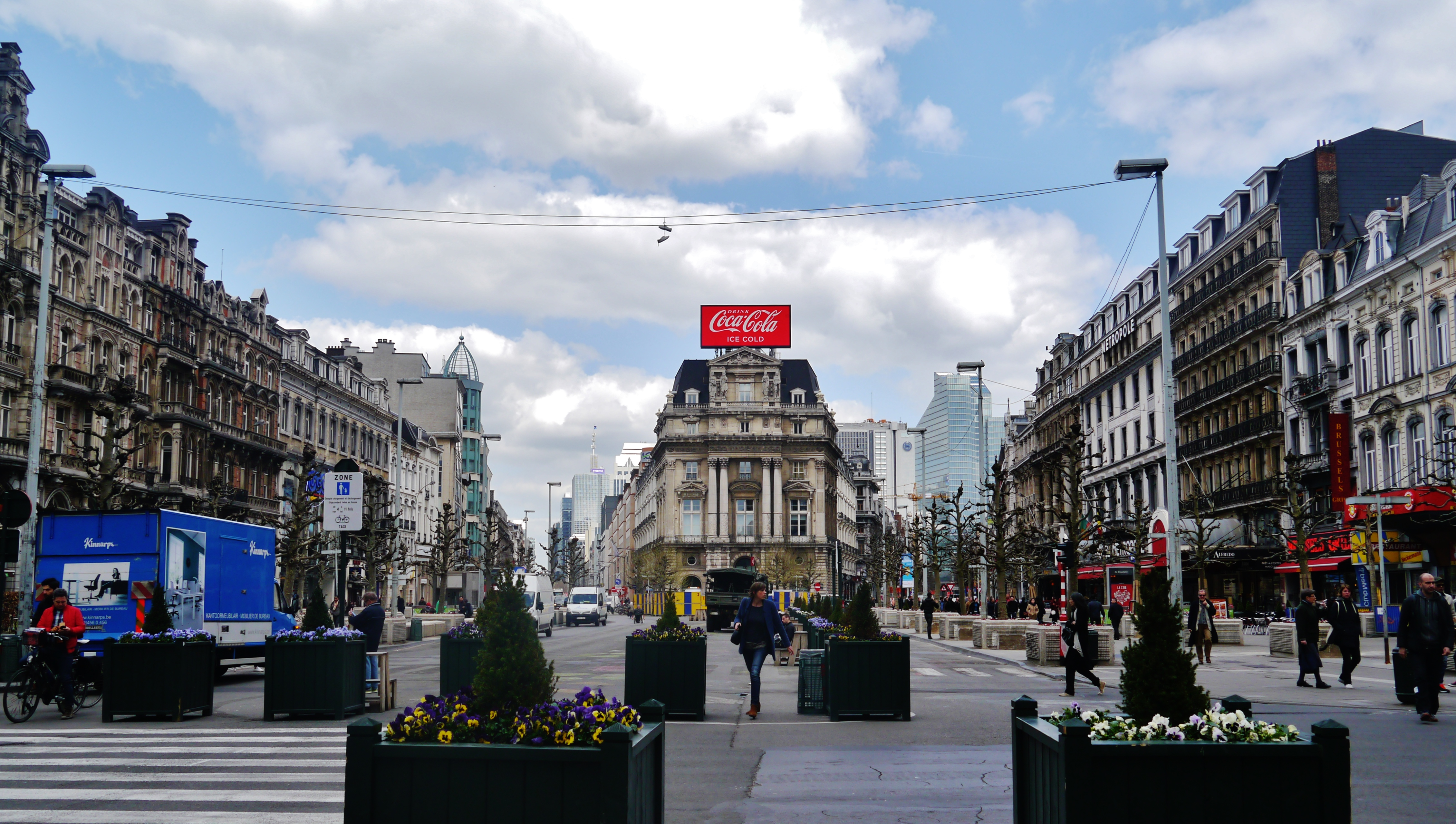 Brouckère Square, Brussels. Region of Brussels, Belgium